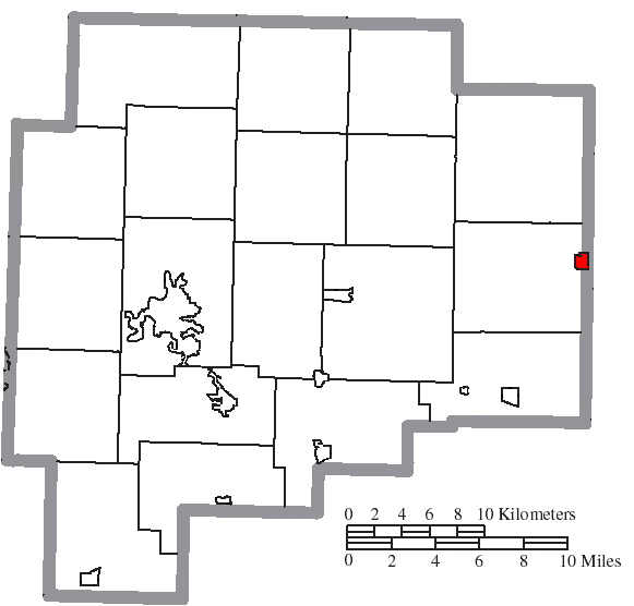 Map of the municipal and township boundaries of Guernsey County, Ohio, United States, as of the 2000 census, with the location of the village of Fairview highlighted. Township borders are shown only in unincorporated areas in order to differentiate incorporated and unincorporated areas more clearly.